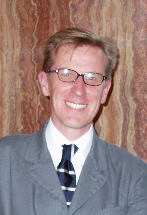 Philip Reeve, author of "Mortal Engines", photographed in May 2008